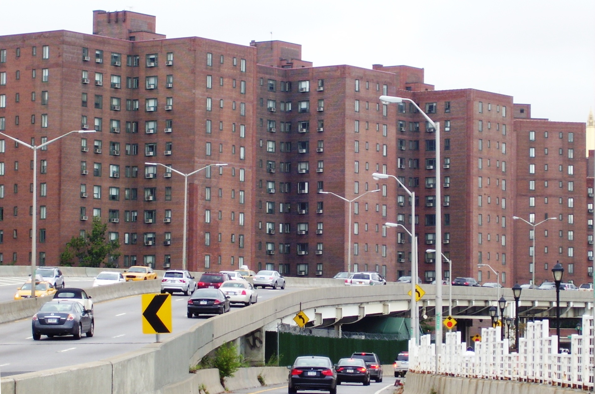 Peter Cooper Village apartment complex in Manhattan, New York City, as seen from Stuyvesant Cove Park.